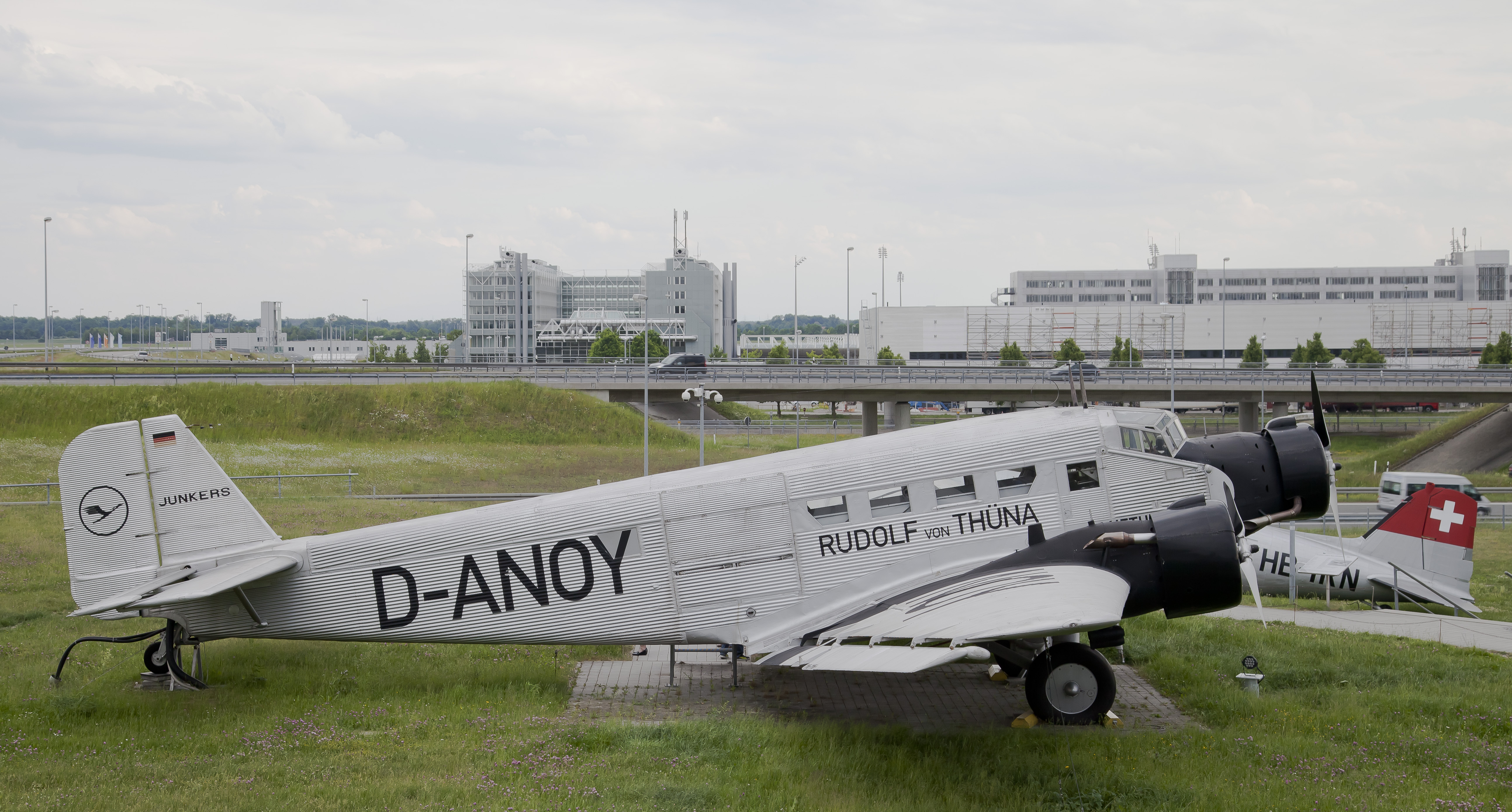 D-Anoy JU-52 Junkers 52 Rudolf von Thuena, Munich Airport Visitors Center, Germany